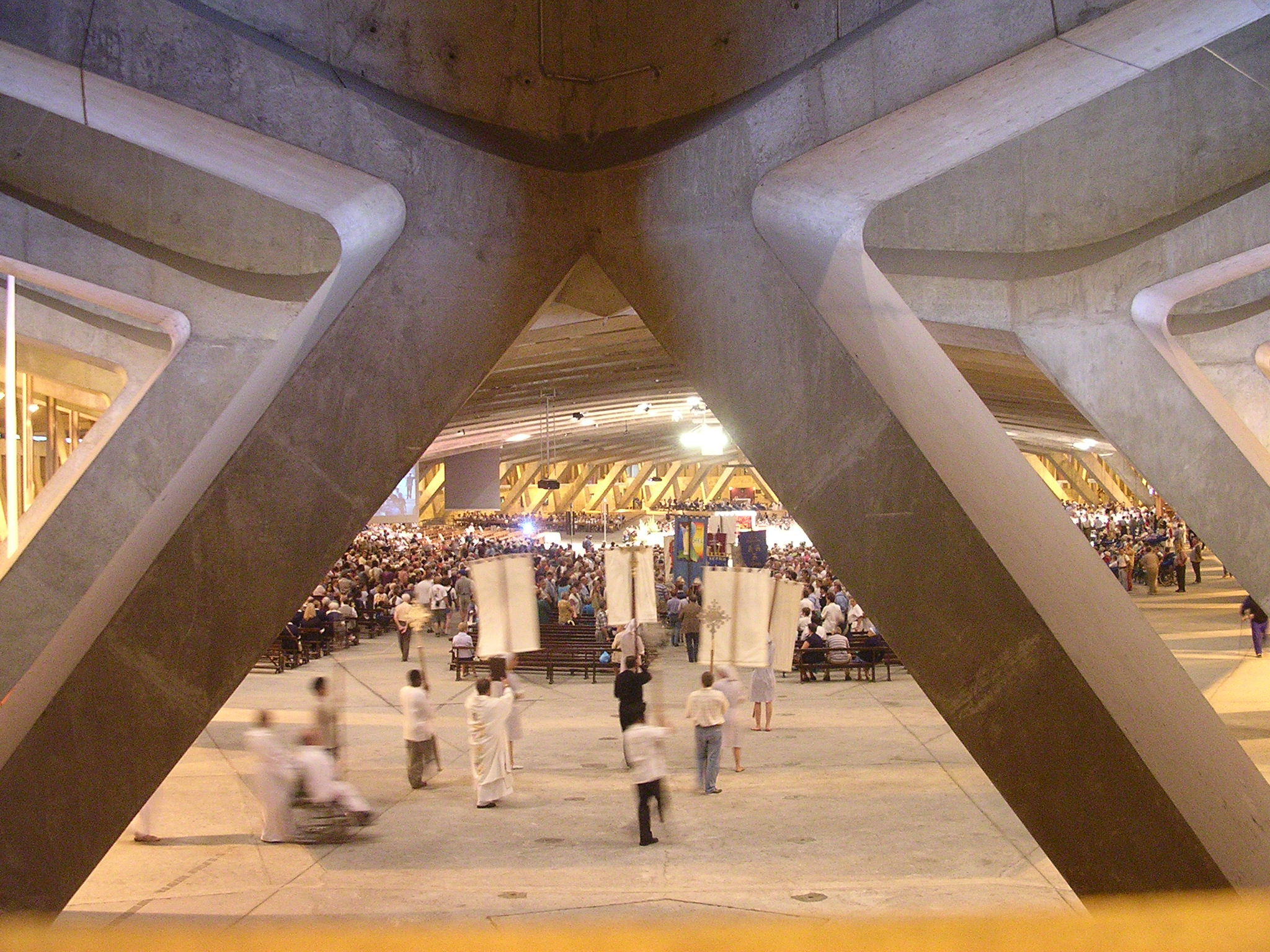 Lourdes, France